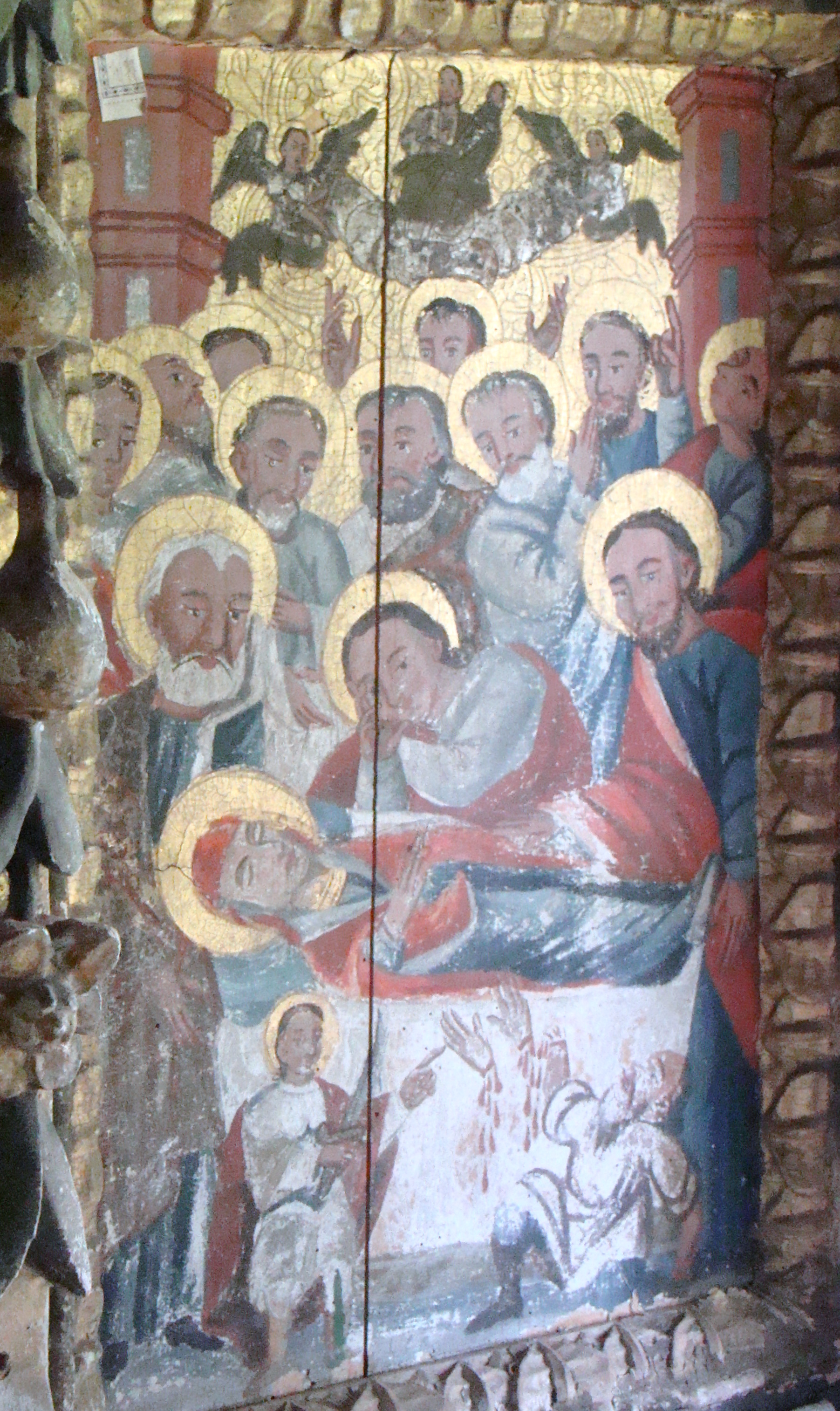 Wooden church in Cărpiniș, Maramureș county, Romania